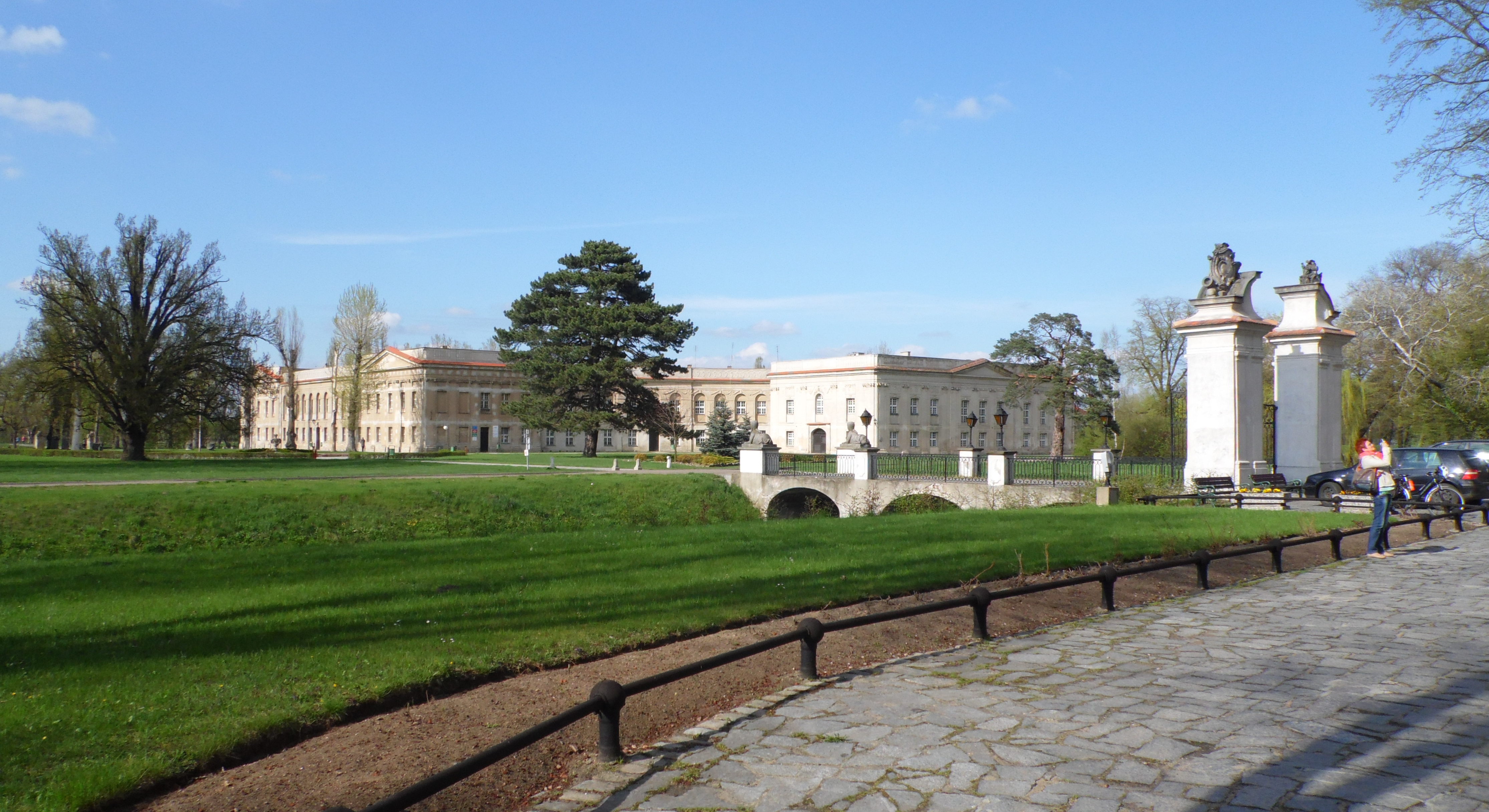 The castle of the seventeenth and eighteenth, twentieth century outbuilding (right) riding - Rydzyna / area. Leszno / province. Greater Poland / Poland